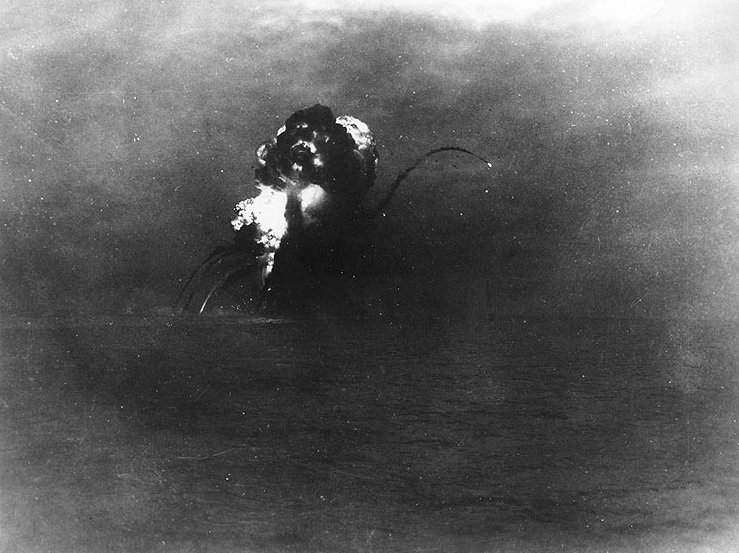 The U.S. Navy light aircraft carrier USS Princeton (CVL-23) blows up after being torpedoed by the light cruiser USS Reno (CL-96) on 24 October 1944. Princeton had been fatally damaged by Japanese air attack earlier in the day, and was scuttled by torpedoing to permit U.S. forces to clear the area.